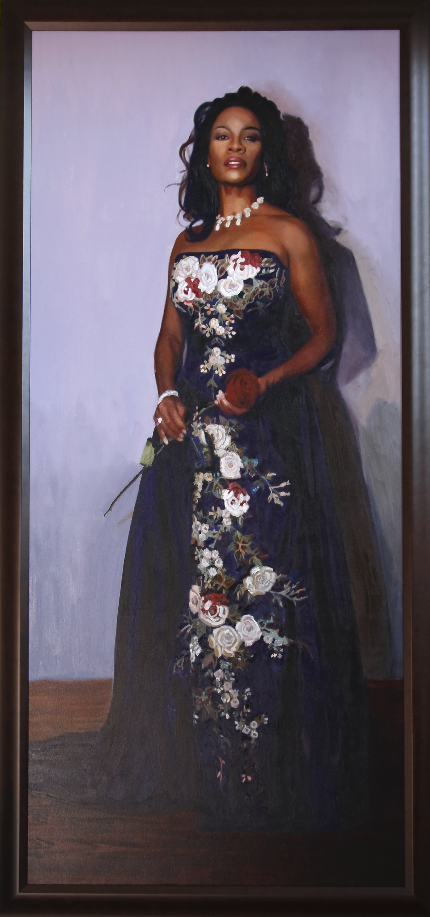 This is the official portrait of Denyce Graves posing as Carmen for the Met Opera performances.